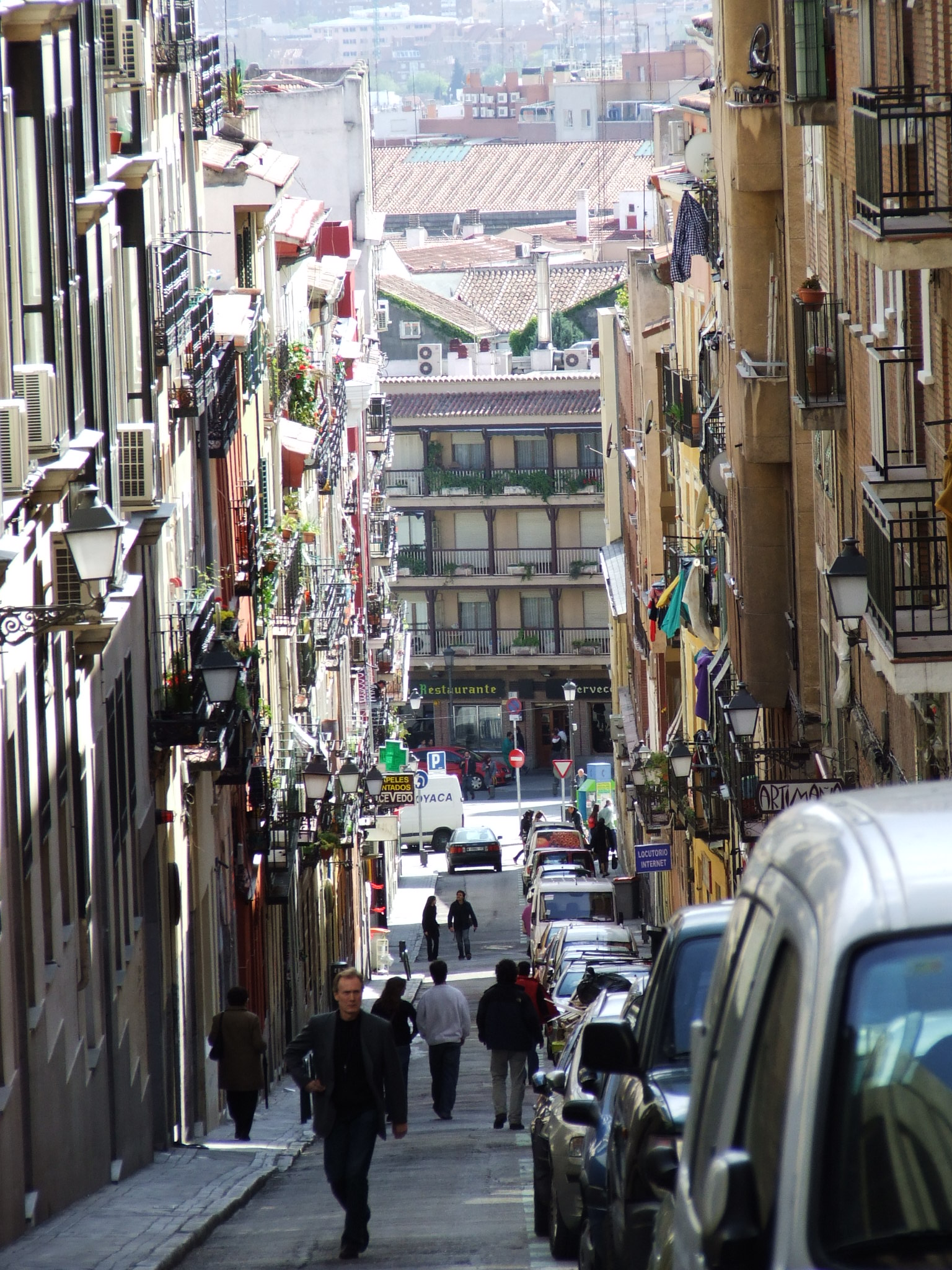 Sight of Madrid: Zurita St. in the popular neighborhooud of Lavapiés